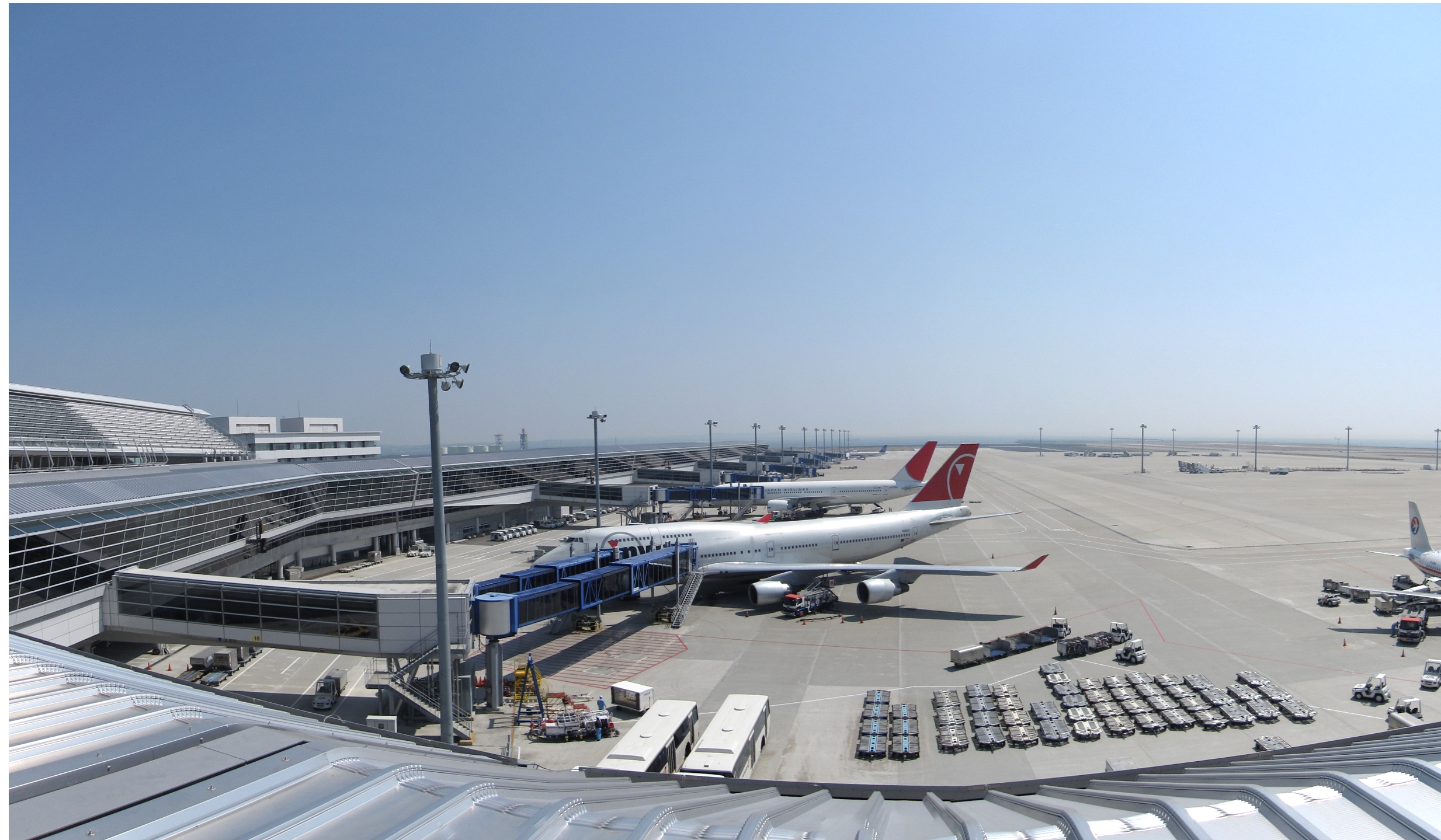 Chubu International Airport